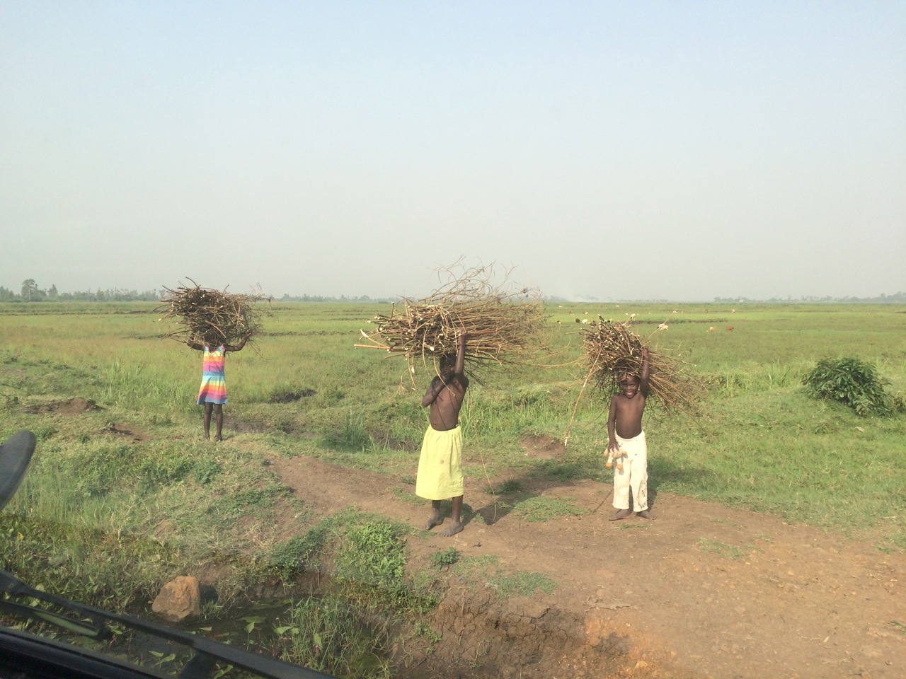 Many children have the daily task of gathering sticks for their mother's cooking fire. This is an image of "African people at work" from Kenya